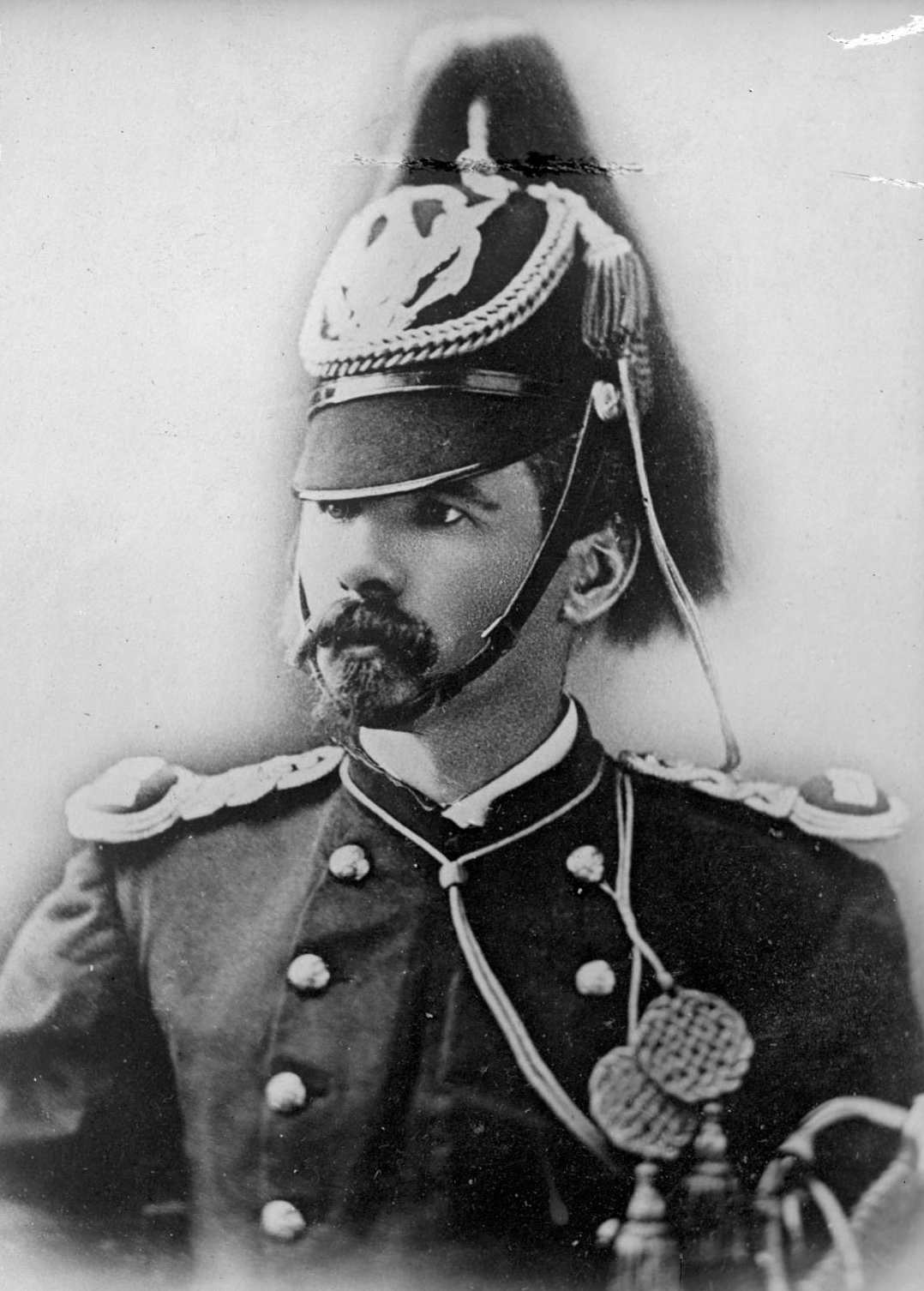 Myles Keogh. An Irishman who fought in Italy during the 1860 Papal War before volunteering for the Union side in the American Civil War. He was killed with General Custer at the Battle of the Little Bighorn in 1876.